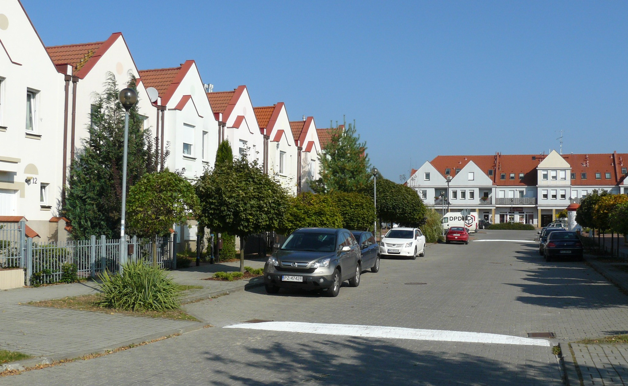 Grzybowe District in Zlotniki, Suchy Las.